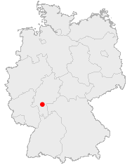 Location, Frankfurt am Main in Germany